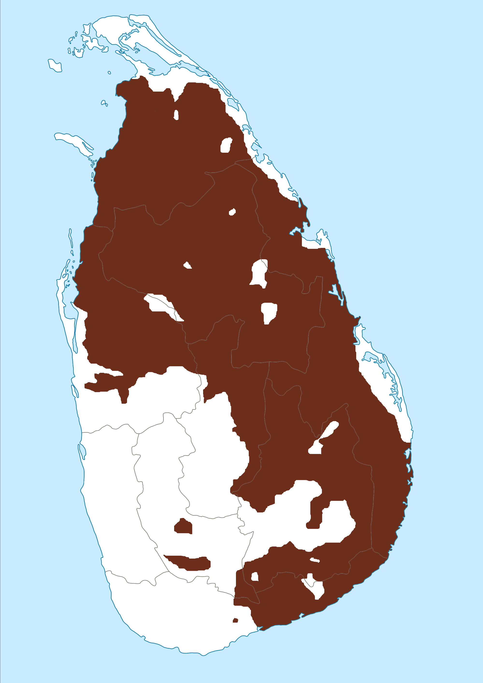 Sri Lankan Elephant Distribution Map Sri Lanka; The researchers involved in bringing this initiative to completion are Prithiviraj Fernando, M.L. Channa R. De Silva, L.K.A. Jayasinghe, H.K. Janaka and Jennifer Pastorin, in their paper titled ‘First country-wide survey of the Endangered Asian elephant: towards better conservation and management in Sri Lanka’.